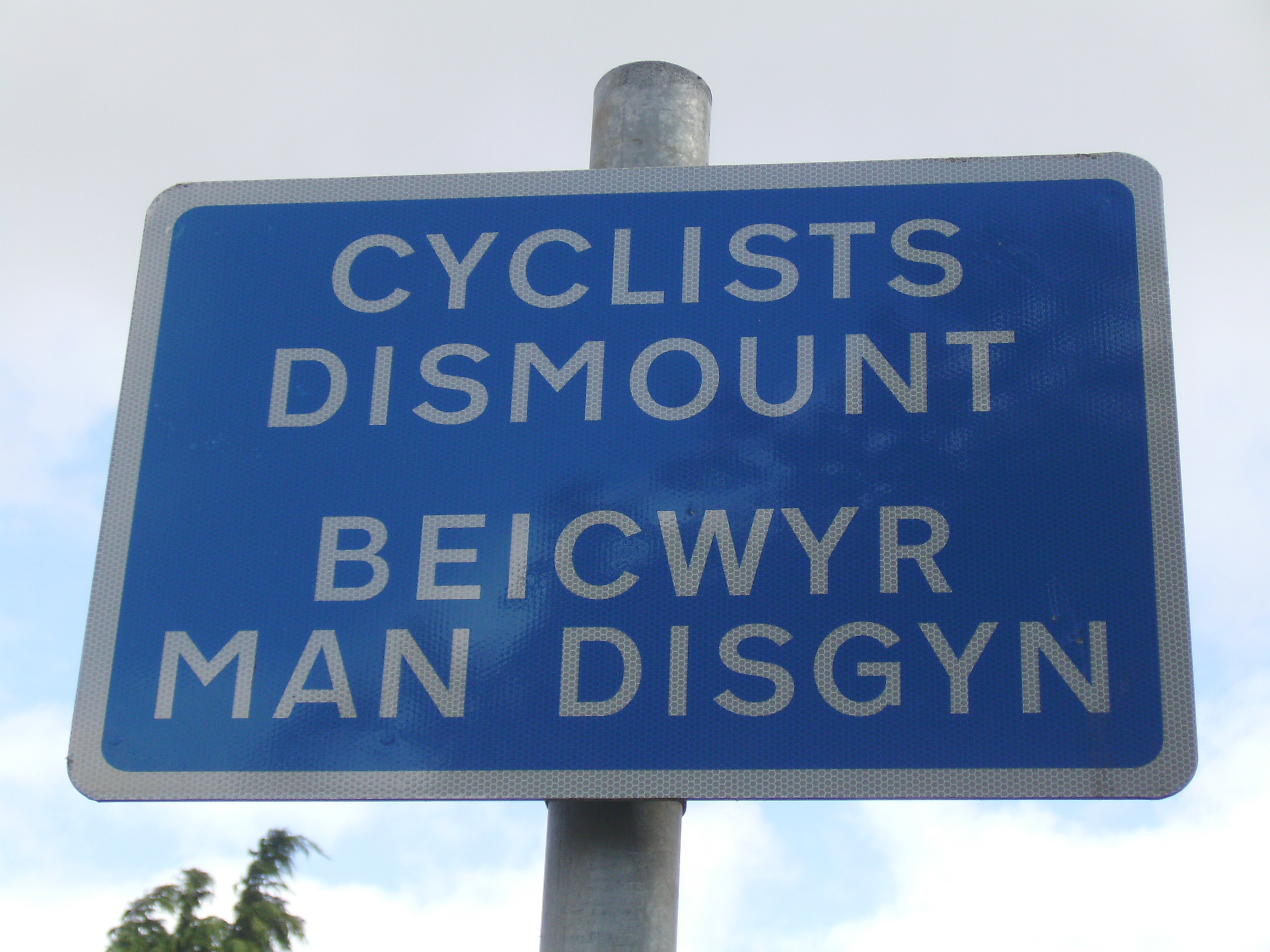 Dismount sign, Cardiff, Wales